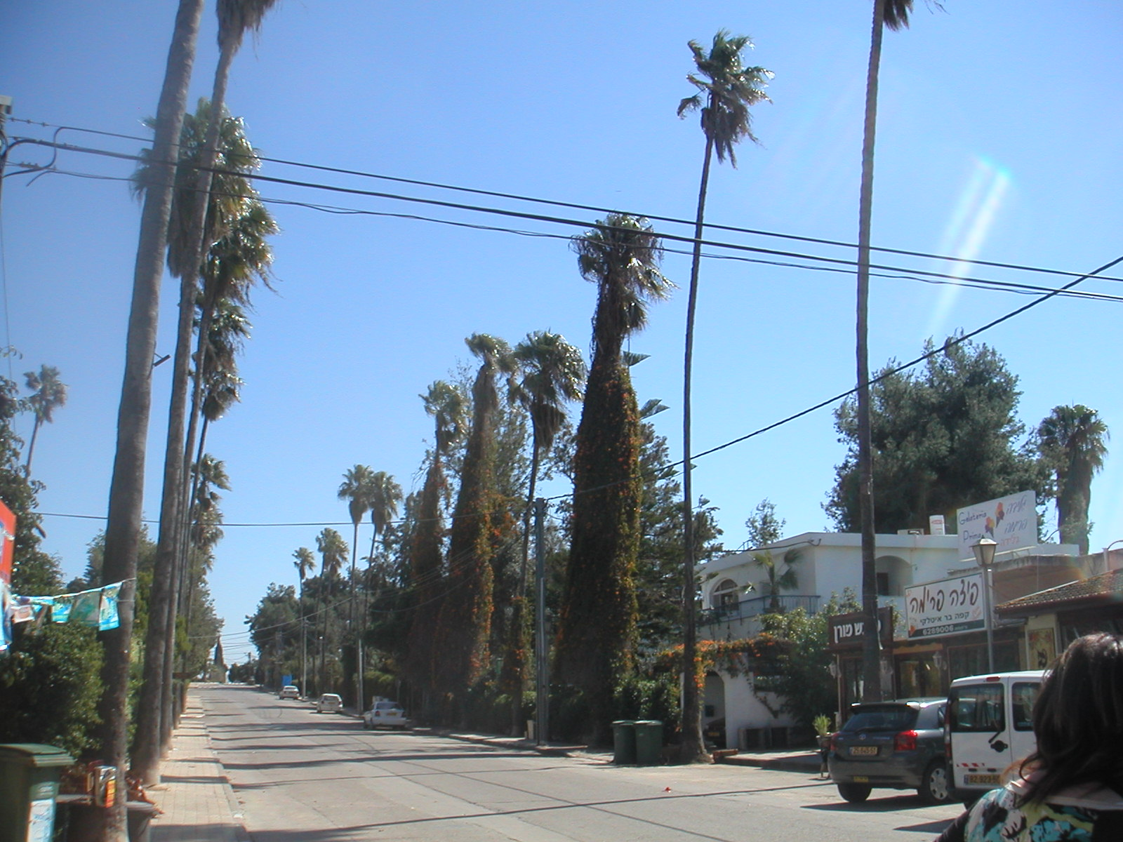 Binyamina is the first colony was established after the First World War. Founders Street, Main Street was Cshukmh colony, were two rows of tall palms Washington Typical colonies Baron